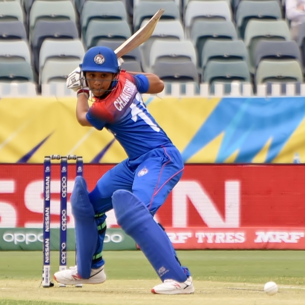 Nattakan Chantam batting for Thailand against the West Indies during their 2020 ICC Women's T20 World Cup match at the WACA Ground in Perth, Australia